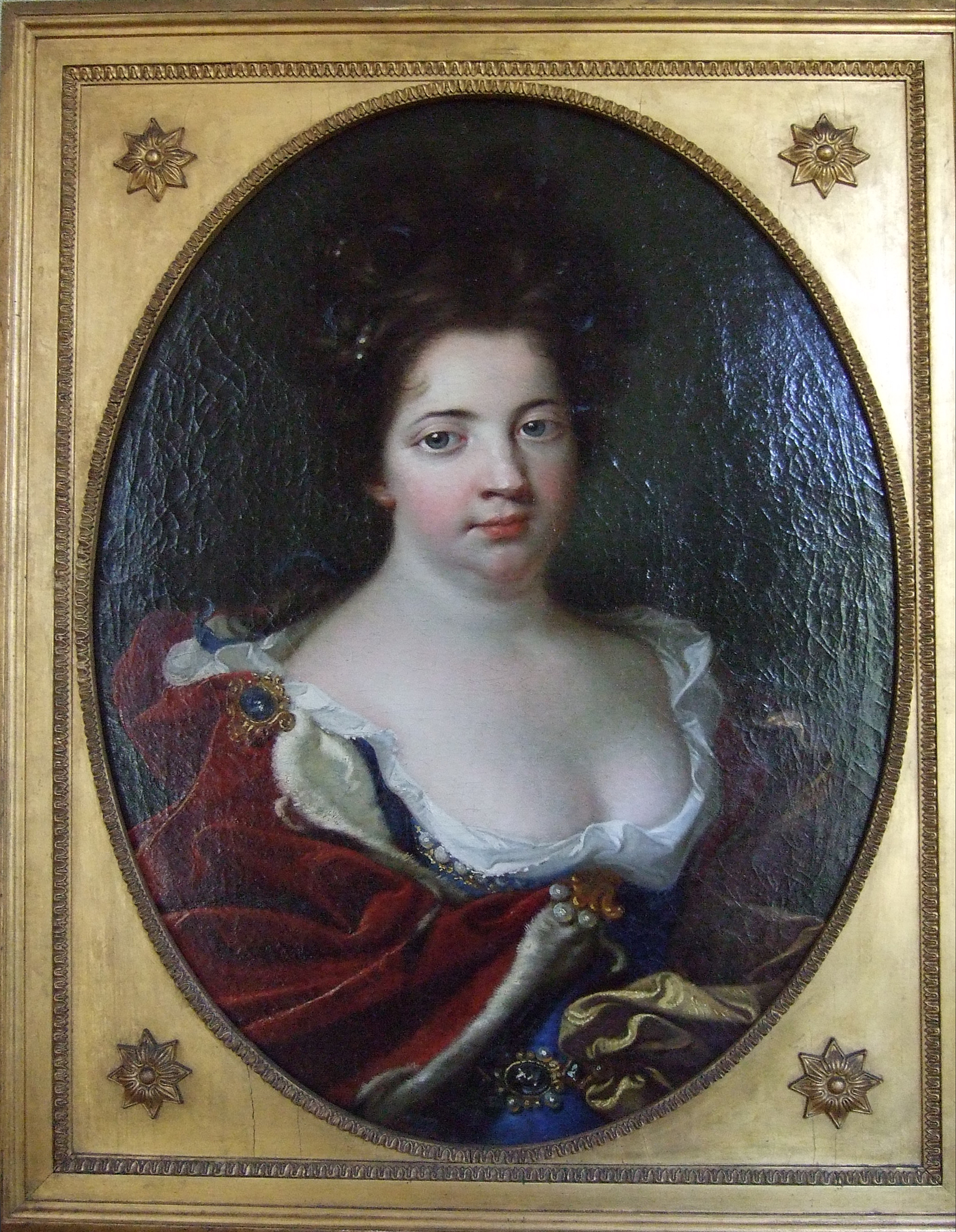 Portrait of Sophia Charlotte of Hanover (1668-1705)